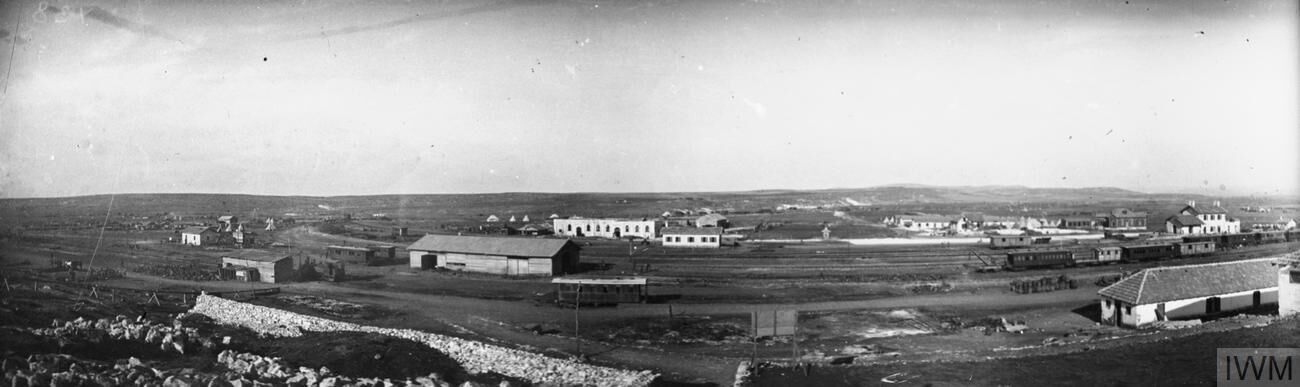 Description: Panorama of Junction Station where the Jaffa-Jerusalem Line was joined by the main Turkish line which served Southern Palestine. It was seized by two armoured cars travelling in advance of the 234th Brigade, 75th Division, 14 November 1917. Taken by 123rd Outram's Rifles, supported by 58th Vaughan's Rifles.